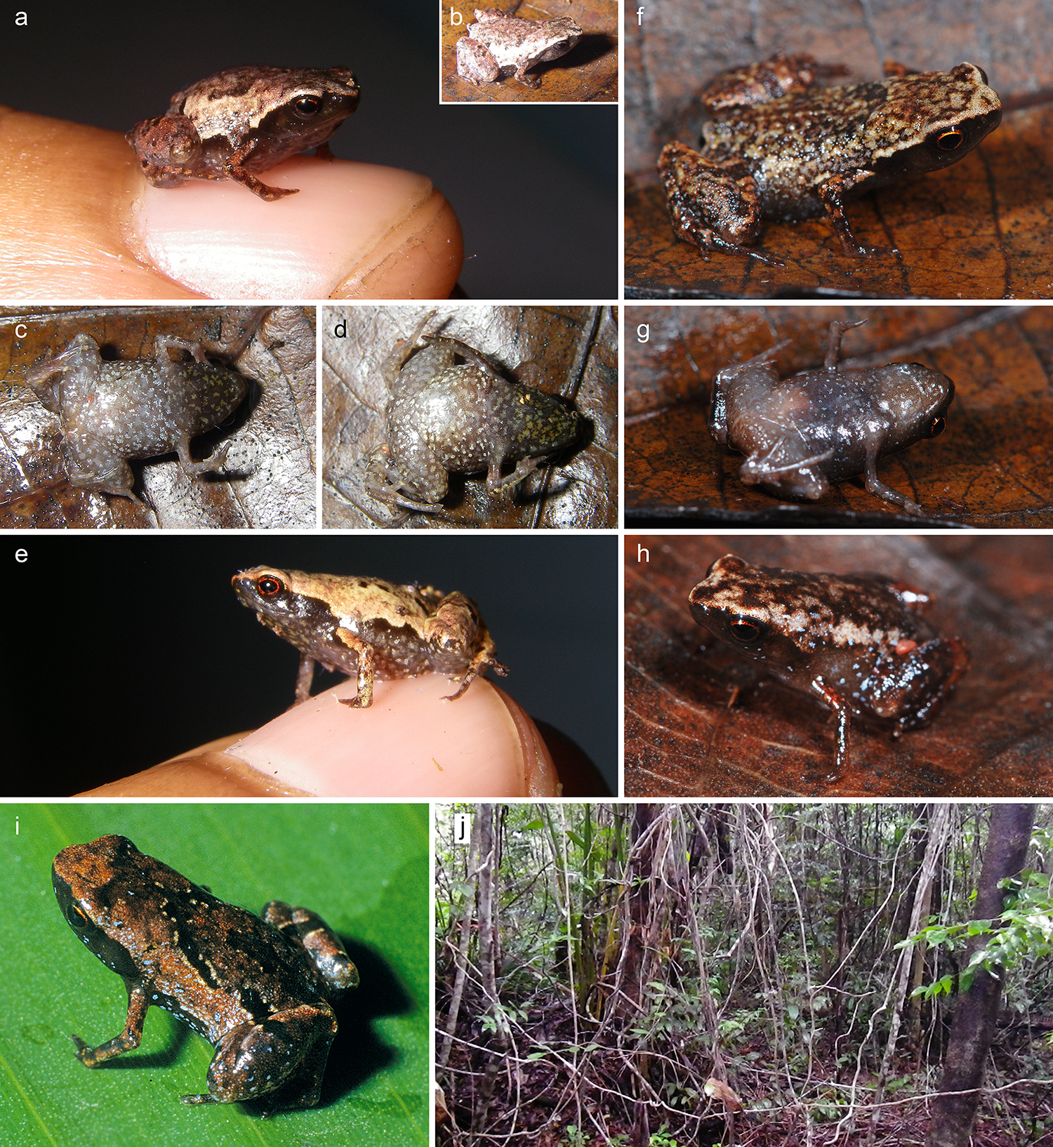 Fig 4. Mini mum gen. et sp. nov. in life and its habitat in Manombo Special Reserve. (a-c) ZSM 861/2014, holotype, in (a) anterolateral view on a thumbnail, (b) dorsolateral view on a leaf, (c) ventral view. (d, e) ZSM 862/2014, paratype, in (d) ventral view, and (e) lateral view on a thumbnail. (f, g) ZMB 83194, paratype, in (f) dorsolateral view, and (g) ventral view. (h) ZMB 81993, paratype, in dorsolateral view. (i) ZMA 20172 in posterodorsolateral view. (j) Habitat of the new species in Manombo Special Reserve. — Scherz et al. 2019 PLoS ONE 14(3): e0213314